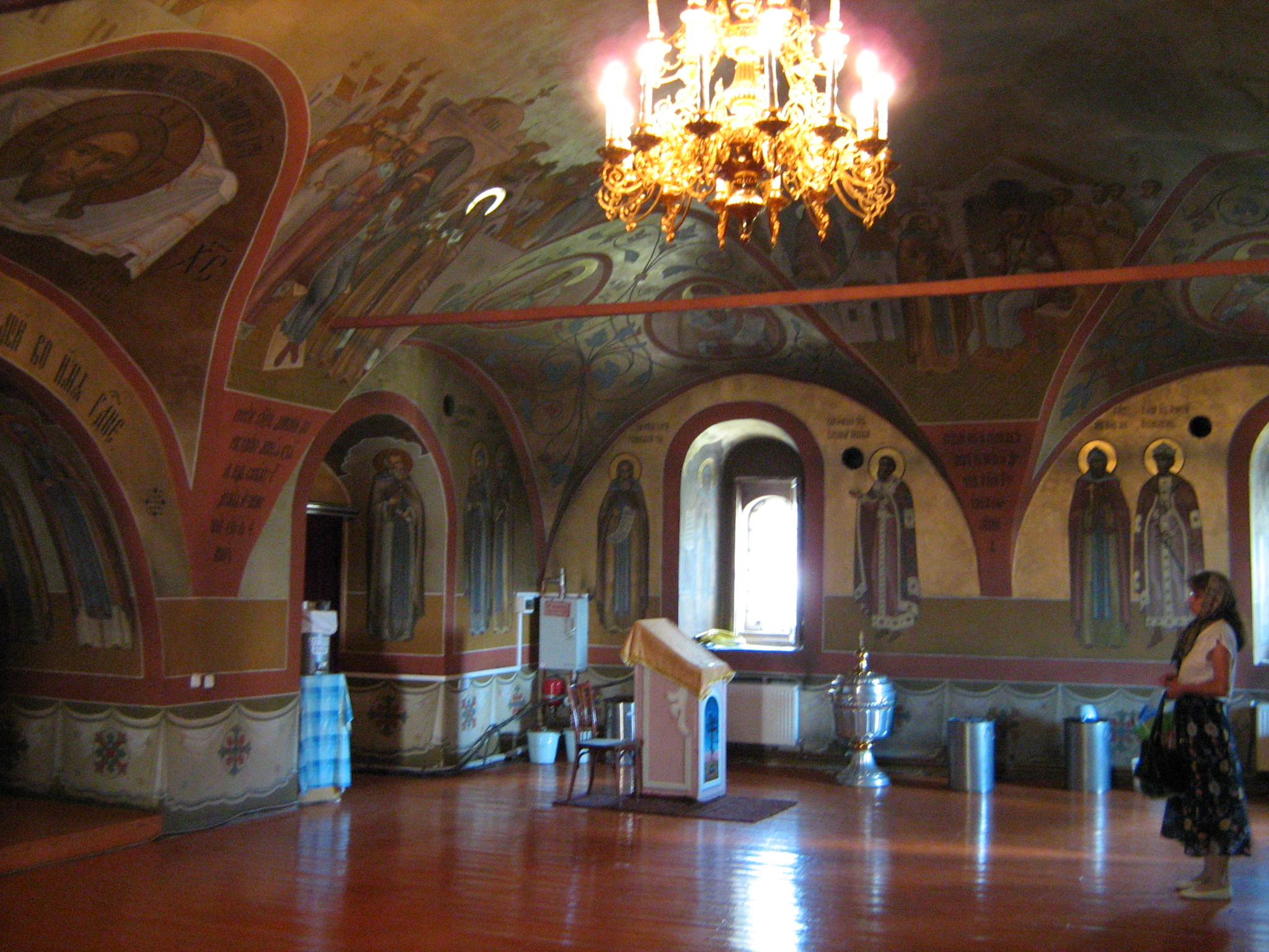 Inside the "Refectory" (the outer section) of the Ascension Cathedral in Pechersky Ascension Monastery in Nizny Novgorod. The frescos have been repainted in 2003 after the massive restoration of the cathedral. Note the metal urn with a faucet on the cabinet covered with a blue-and-white checkered cloth on the left. According to the label (illegible in the photo) it contains holy water for drinking